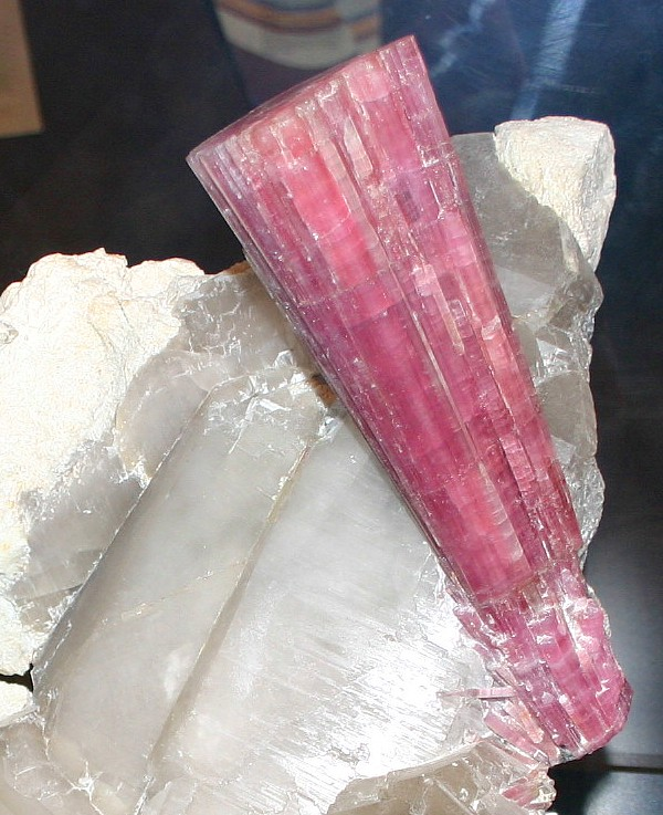 This photo taken by Chris Ralph of [1], Photographer and author: photo taken by author.